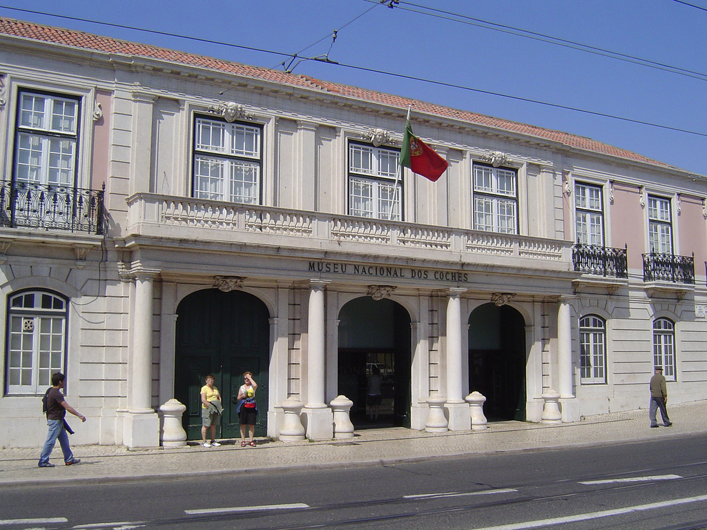 Entrance to the Coach Museum in Lisbon, Portugal